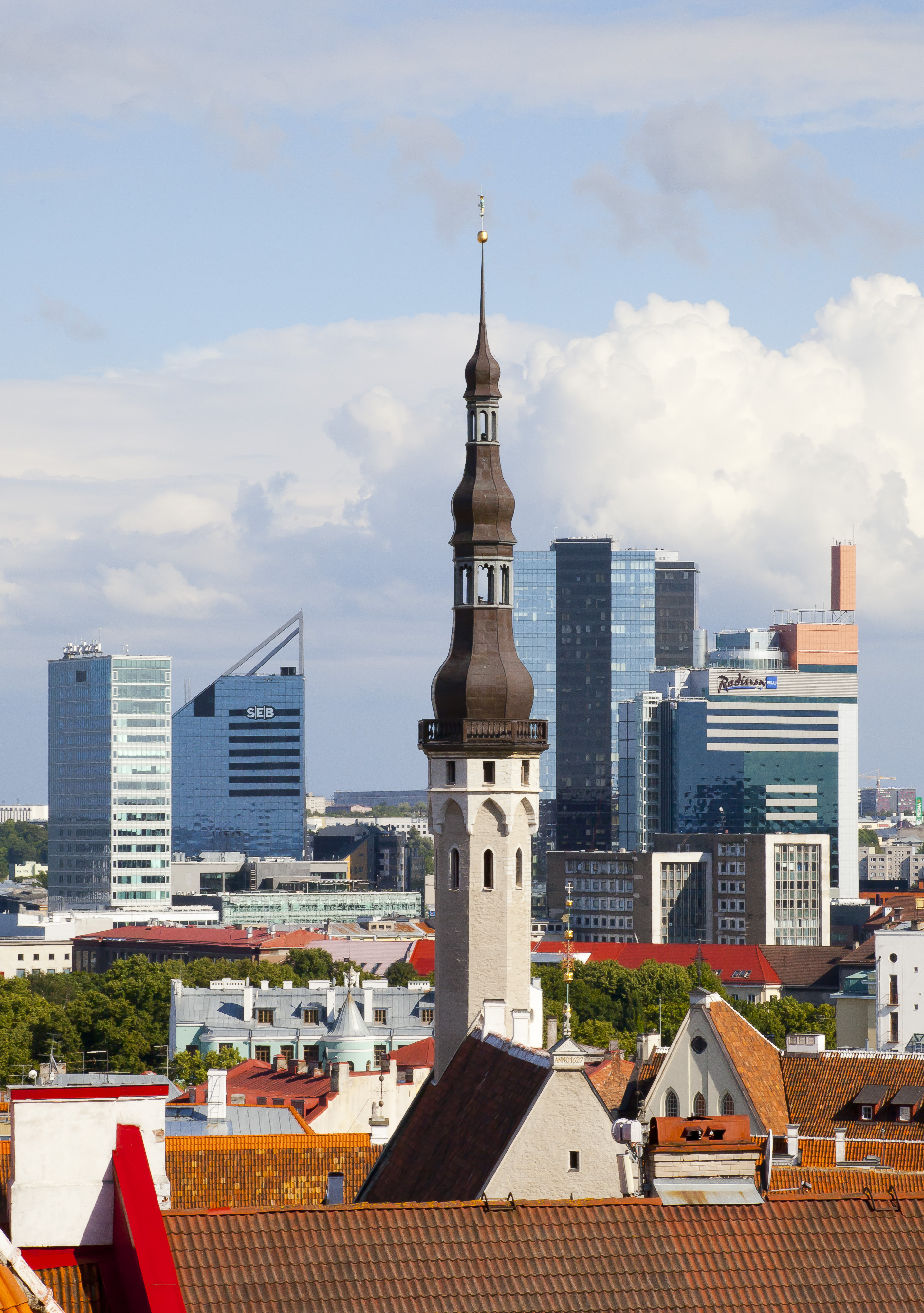 Town Hall, Tallinn, Estonia